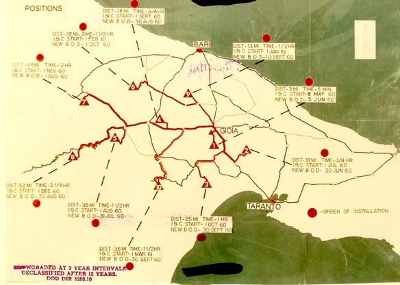 Jupiter missile deployment in Italy